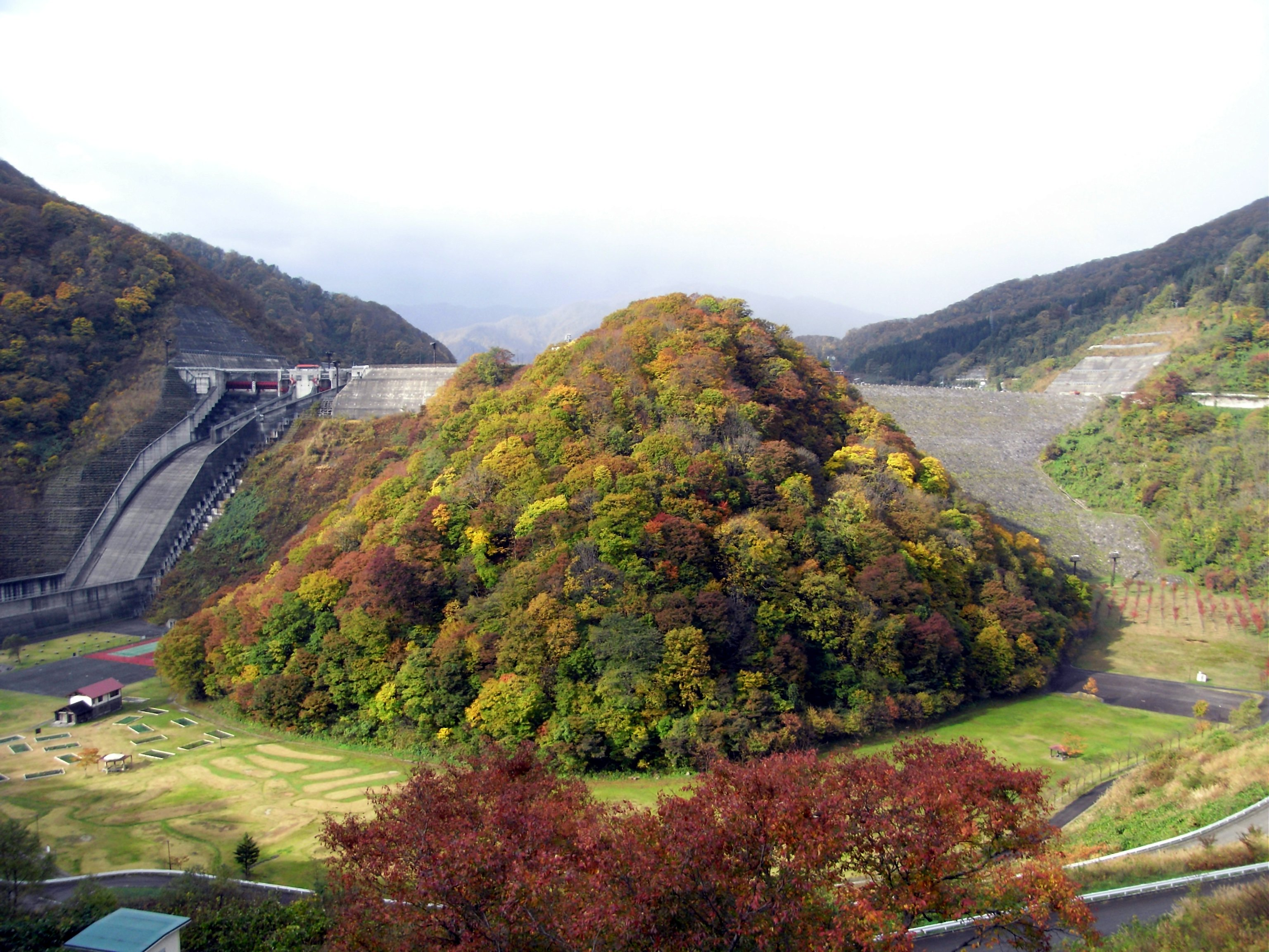 Sagae Dam(Sagaegawa river/Yamagata Pref./Japan)